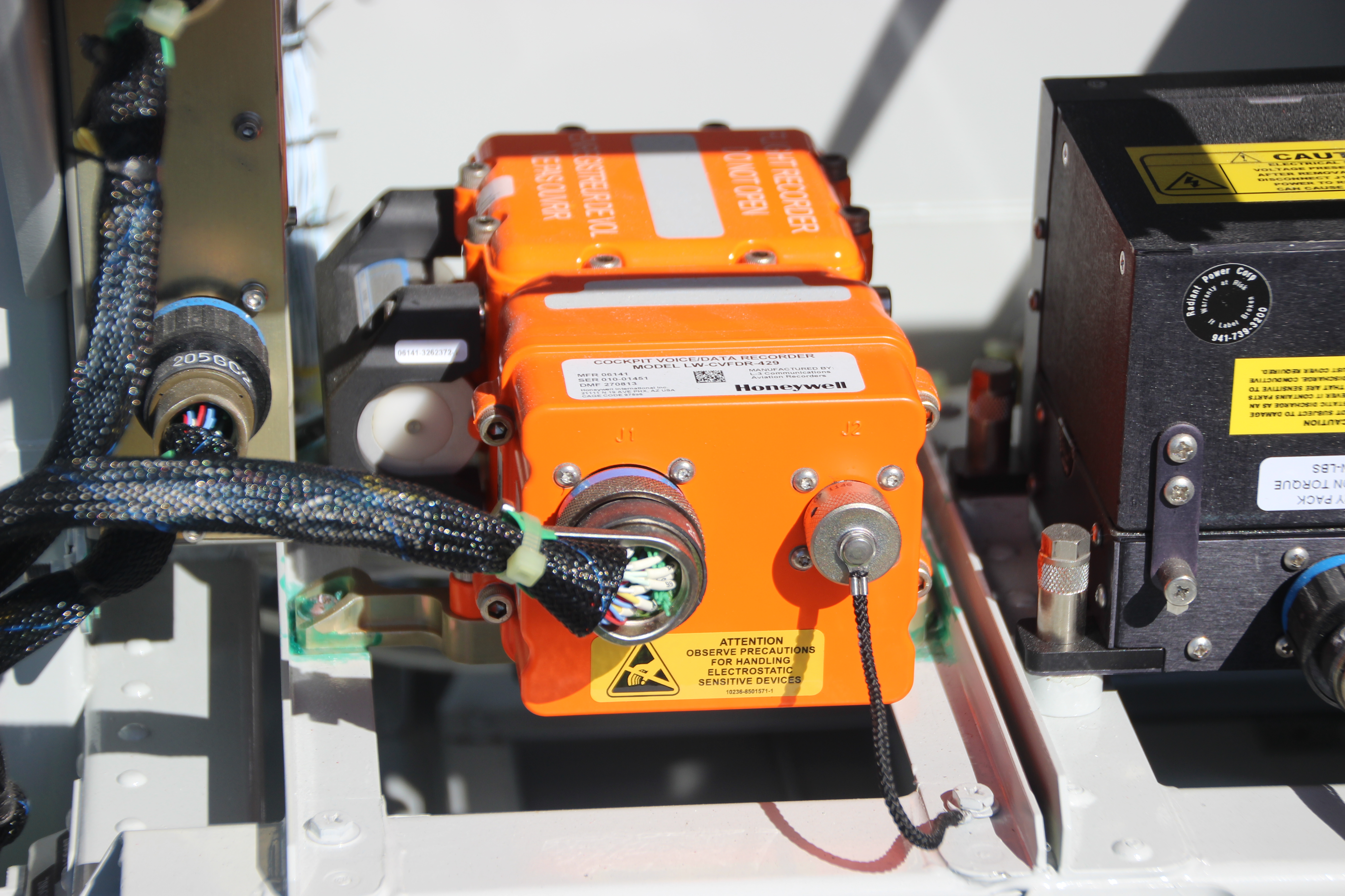 A late-generation compact combined cockpit voice recorder/flight data recorder, known as a cockpit voice data recorder (CVDR), mounted in the nose of a business jet. Another identical unit is mounted in the traditional location in the aircraft's tail. Digital image taken by YSSYguy on 5 May 2016 and uploaded for use in the Flight recorder article. YSSYguy (talk) 02:10, 18 November 2016 (UTC)